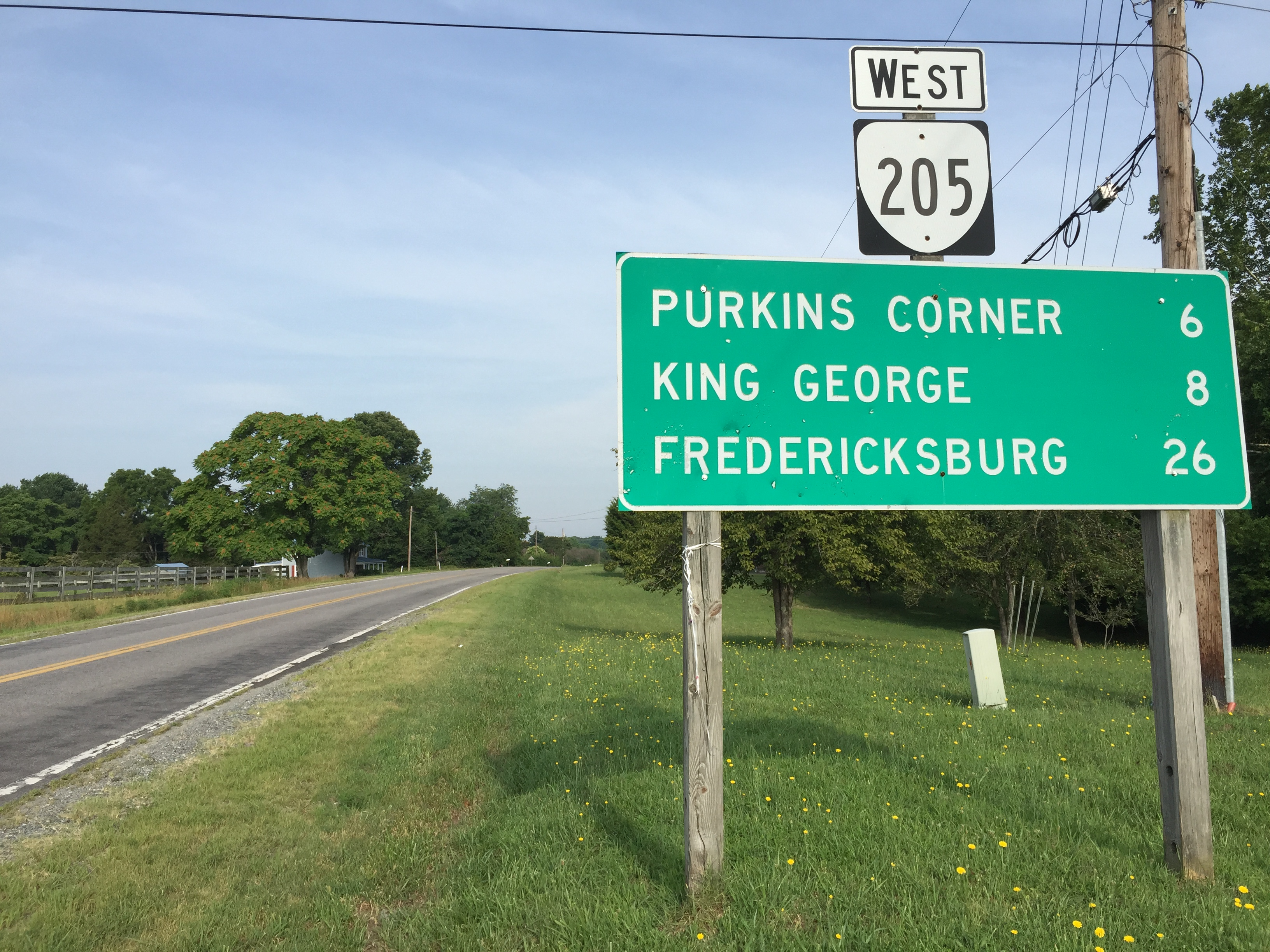 View west along Virginia State Route 205 (Ridge Road) at Thornhill Farm Road in Ninde, King George County, Virginia